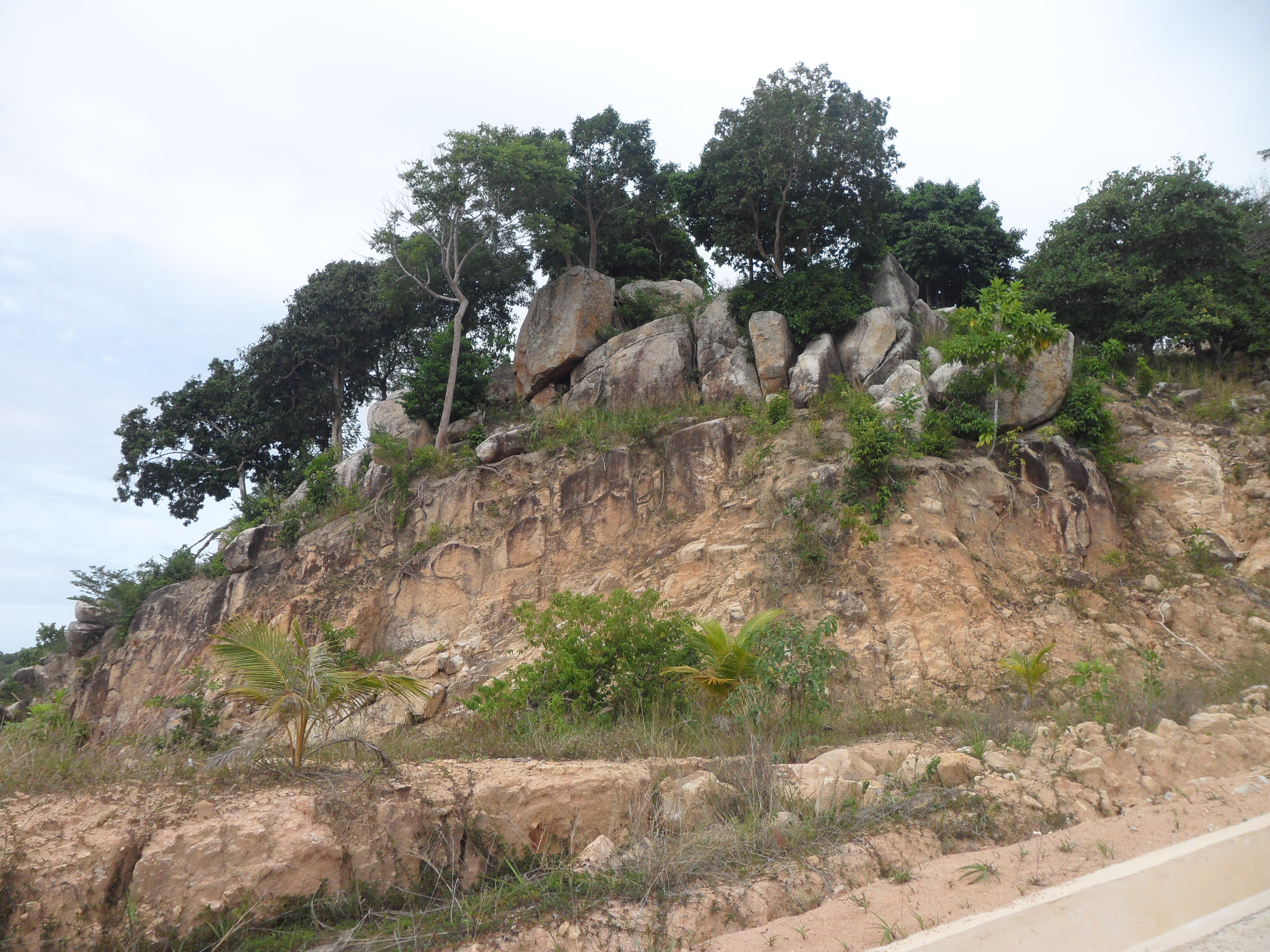 Land erosion from clearance of trees - Koh Tao (Thailand)